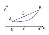 Concave (a) and convex (b) functions